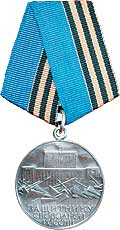 Medal For The Defence Of Free Russia